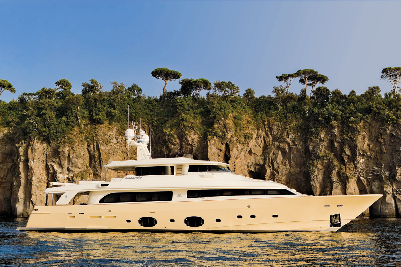 Exterior picture of Custom Line Navetta 33 yacht